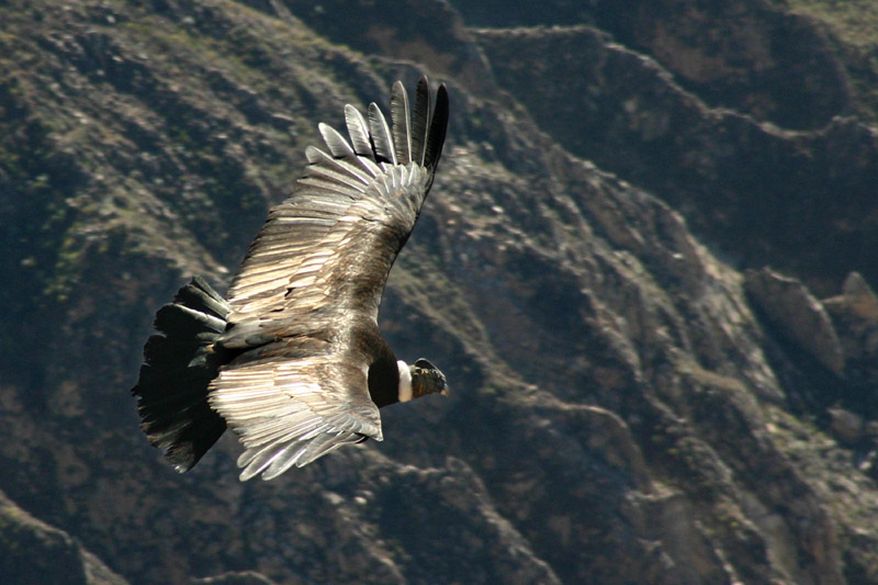 A condor (Vultur gryphus) flying over the Colco canyon in Peru